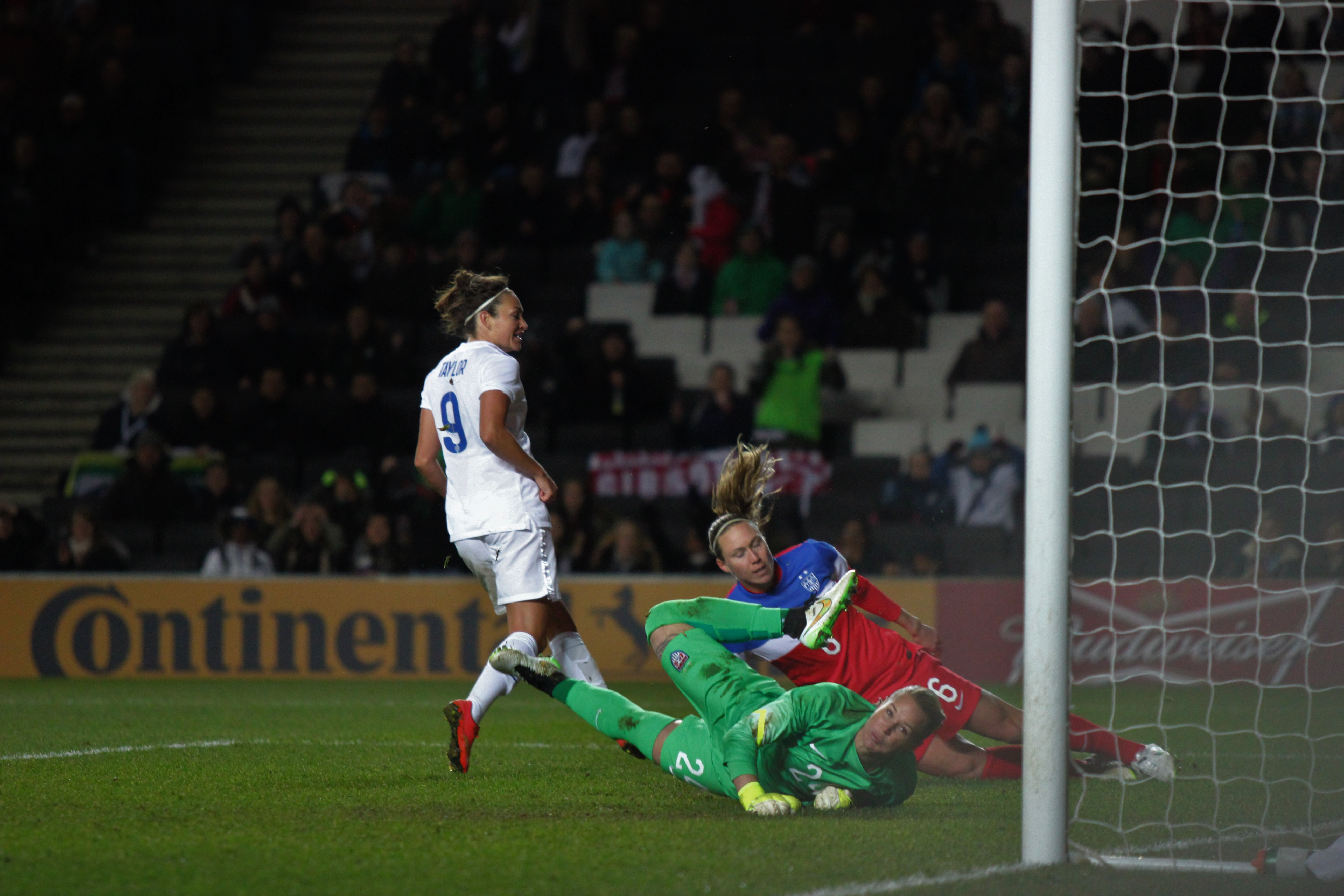 Jodie Taylor of England Women's scores against USA.